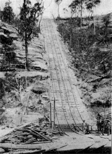 Funicular Railway used during the building of the 10 tunnels deviation at Lithgow